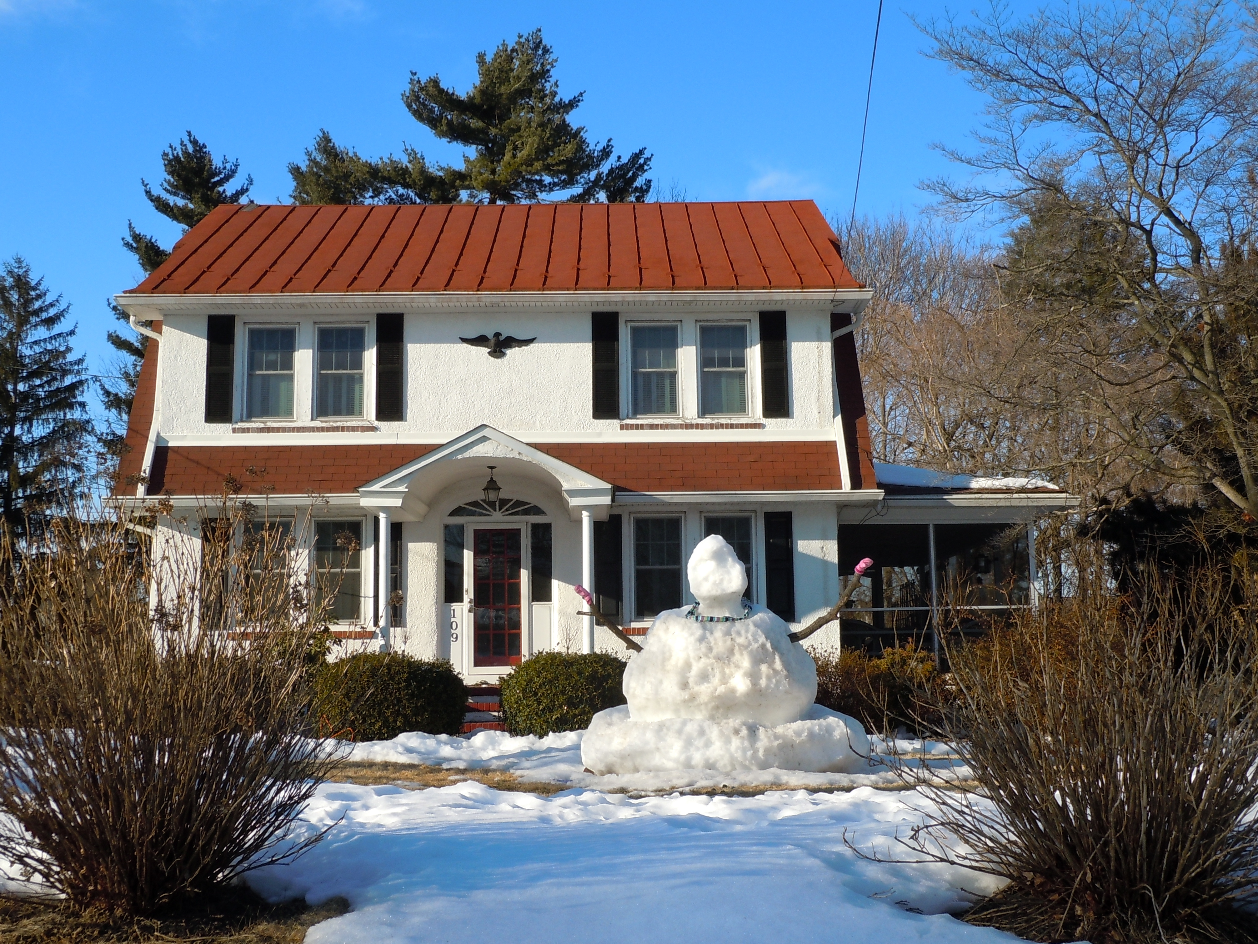 Snowman in front of house in Lionville Historic District. HD on NRHP since December 1, 1980. HD is roughly along Pennsylvania Route 100 and South Village Avenue in Lionville, Uwchlan Township, Chester County, Pennsylvania. 50 degrees tomorrow and the snowman might be gone!